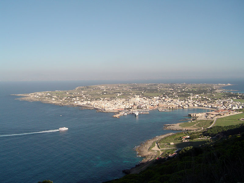 Favignana town on the island of Favignana, Italy